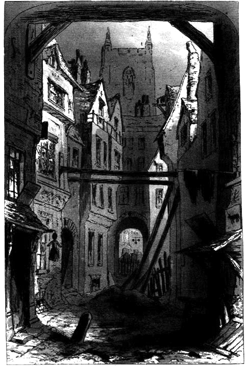 Tom All Alone's Phiz (Hablot K. Browne) 1853 Etching 5 x 3 3/8 inches on a page of 8 7/16 x 5 inches Facing p. 442 (ch. 46, "Stop Him!") of Dickens's Bleak House. [Although the text calls this area "Tom-all-Alone's," the caption in the first edition has "Tom all alone's" — no hyphens and different capitalization. The Oxford Illustrated Dickens, which rather bizarrely puts the plate several pages into the following chapter — 14 pages from where it should appear — has "Tom-all-Alone's."]